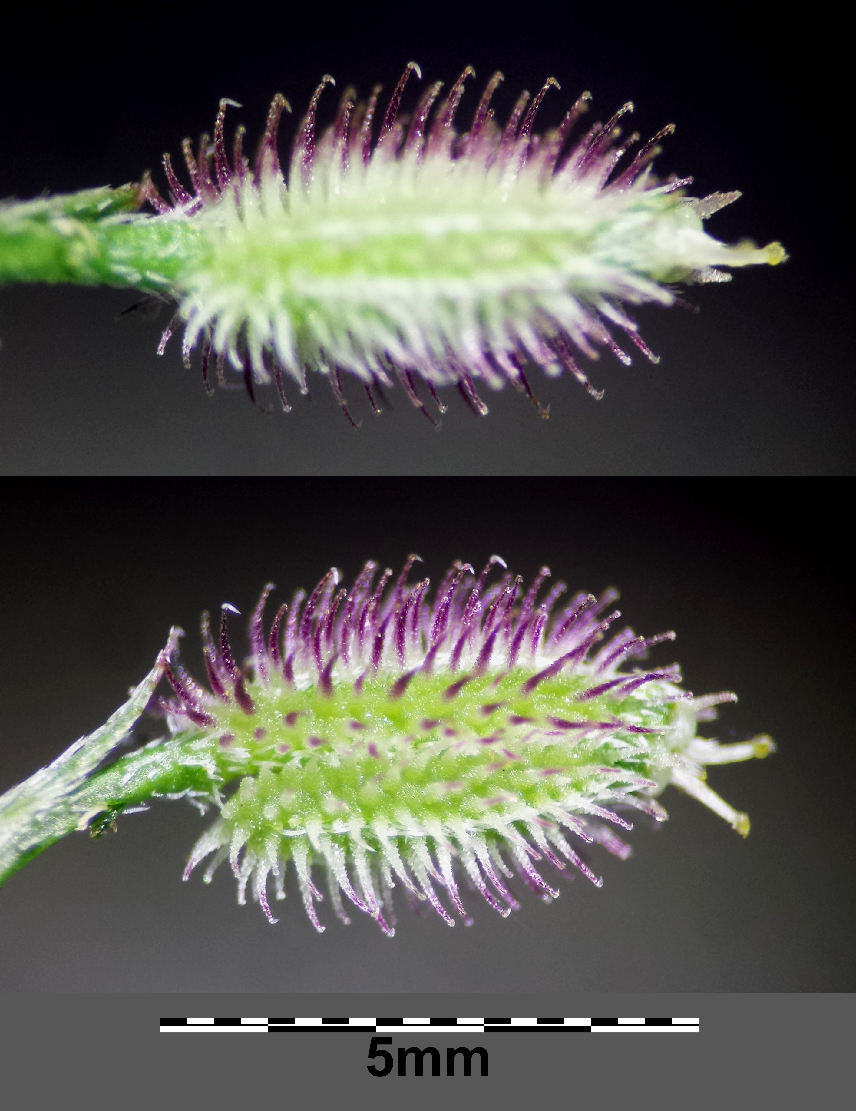 Fruit Taxonym: Torilis arvensis ss Fischer et al. EfÖLS 2008 ISBN 978-3-85474-187-9 Location: Drygalskiweg, Vienna-Donaustadt - ca. 160 m a.s.l. Habitat: dry slope